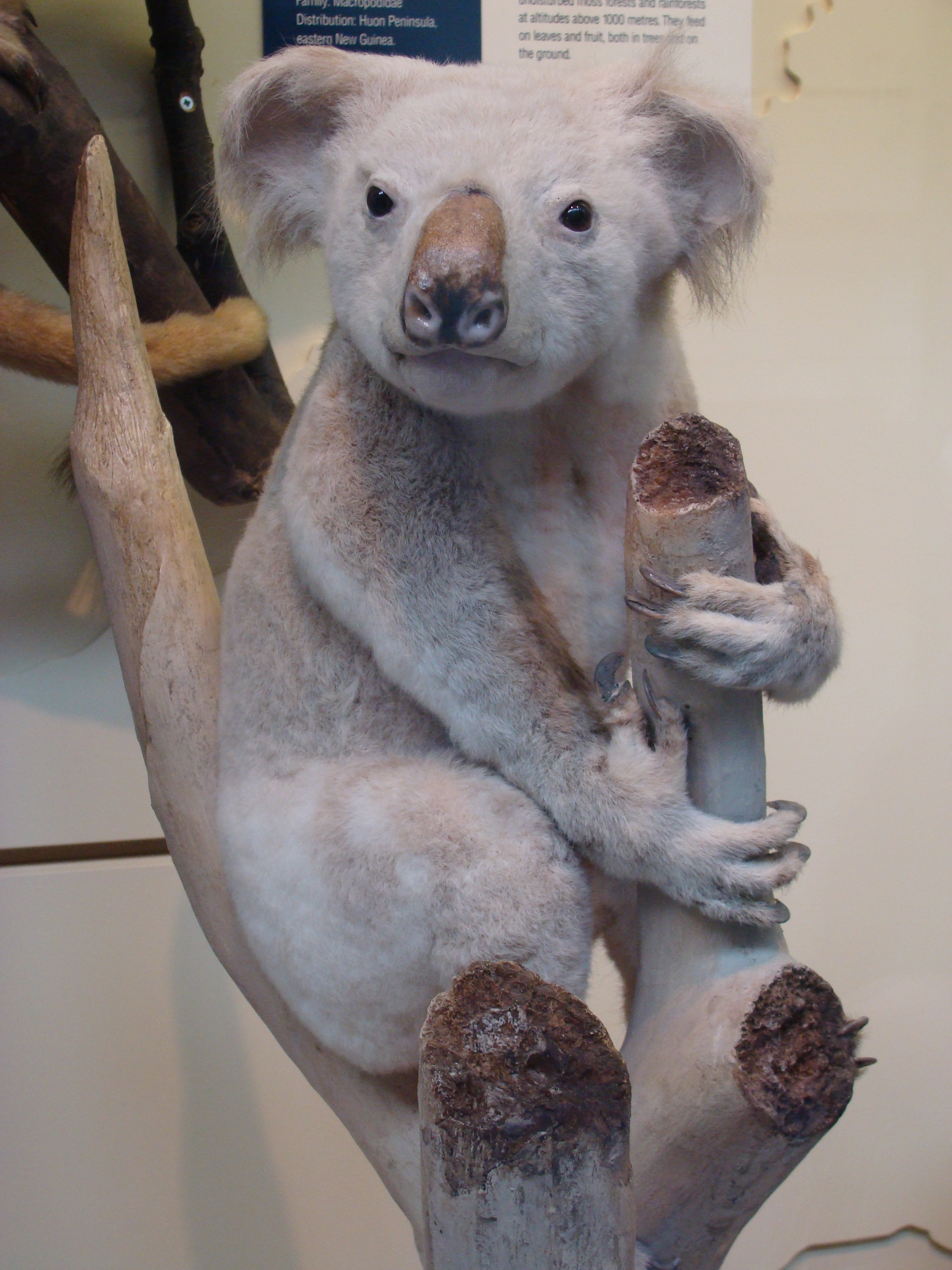 Phascolarctos cinereus (Koala) in the Natural History Museum of London